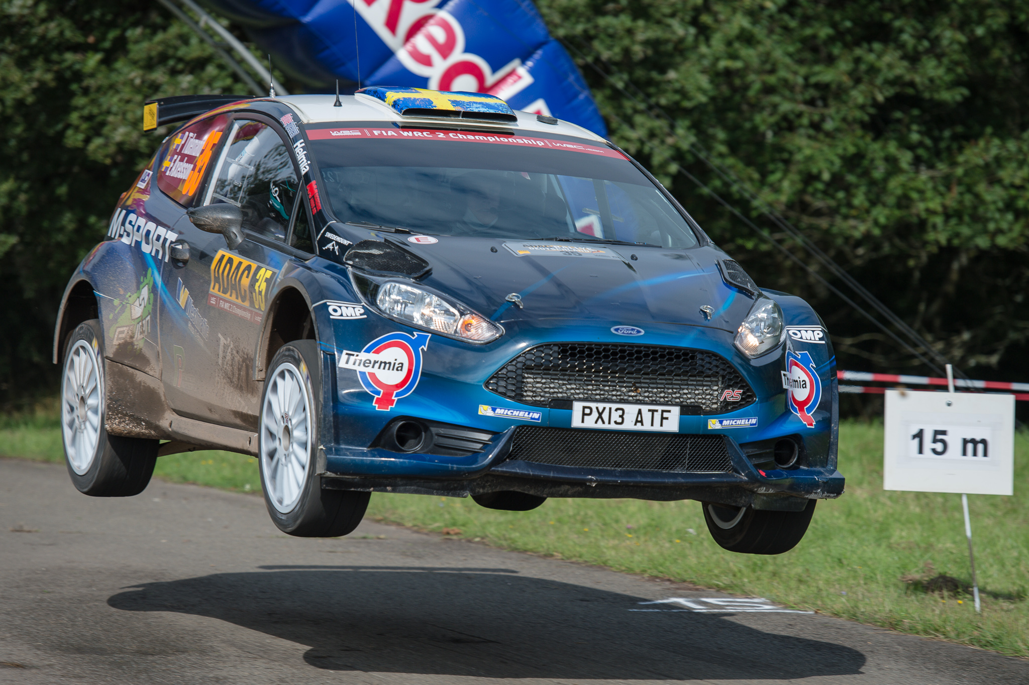 ADAC Rallye Deutschland 2014,Emil Axelsson,FIA,FIA World Rally Championship,Ford Fiesta R5,Gina,Motorsport,Panzerplatte,Pontus Tidemand,Rally,Rallye,Rallye Deutschland,SS10,WP10,WRC 2